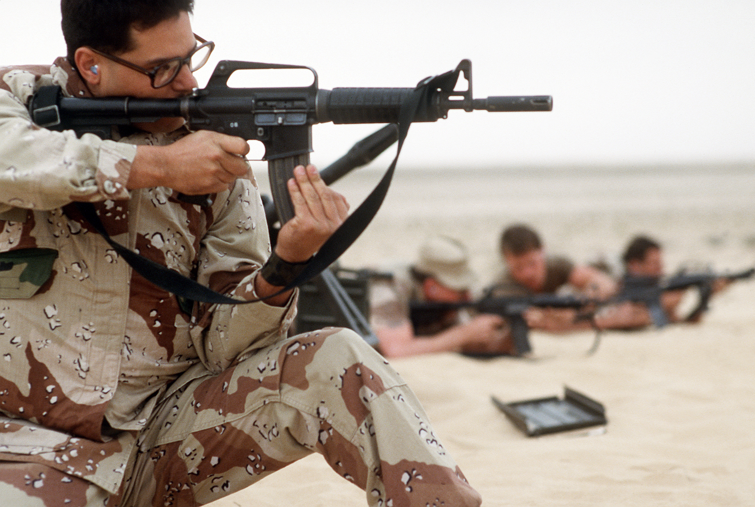 An Air Force security policeman aims his 5.56mm Colt Commando assault rifle at a target during a live-fire demonstration, part of Operation Desert Shield.